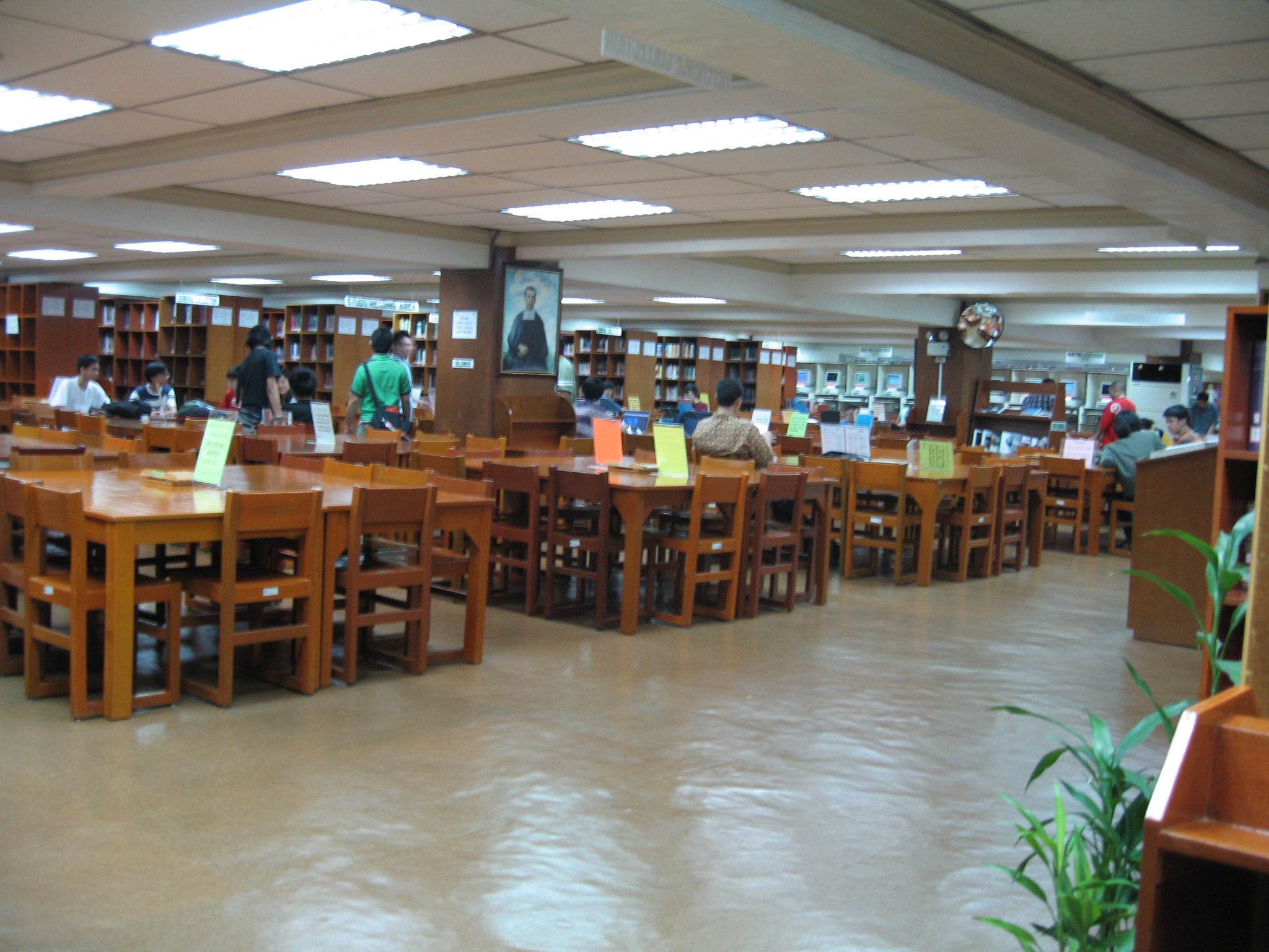 LRC-Extension interior. Self-taken.